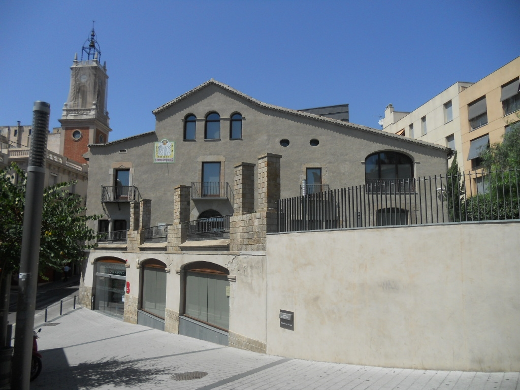 Can Mariner, Barcelona (Catalonia)